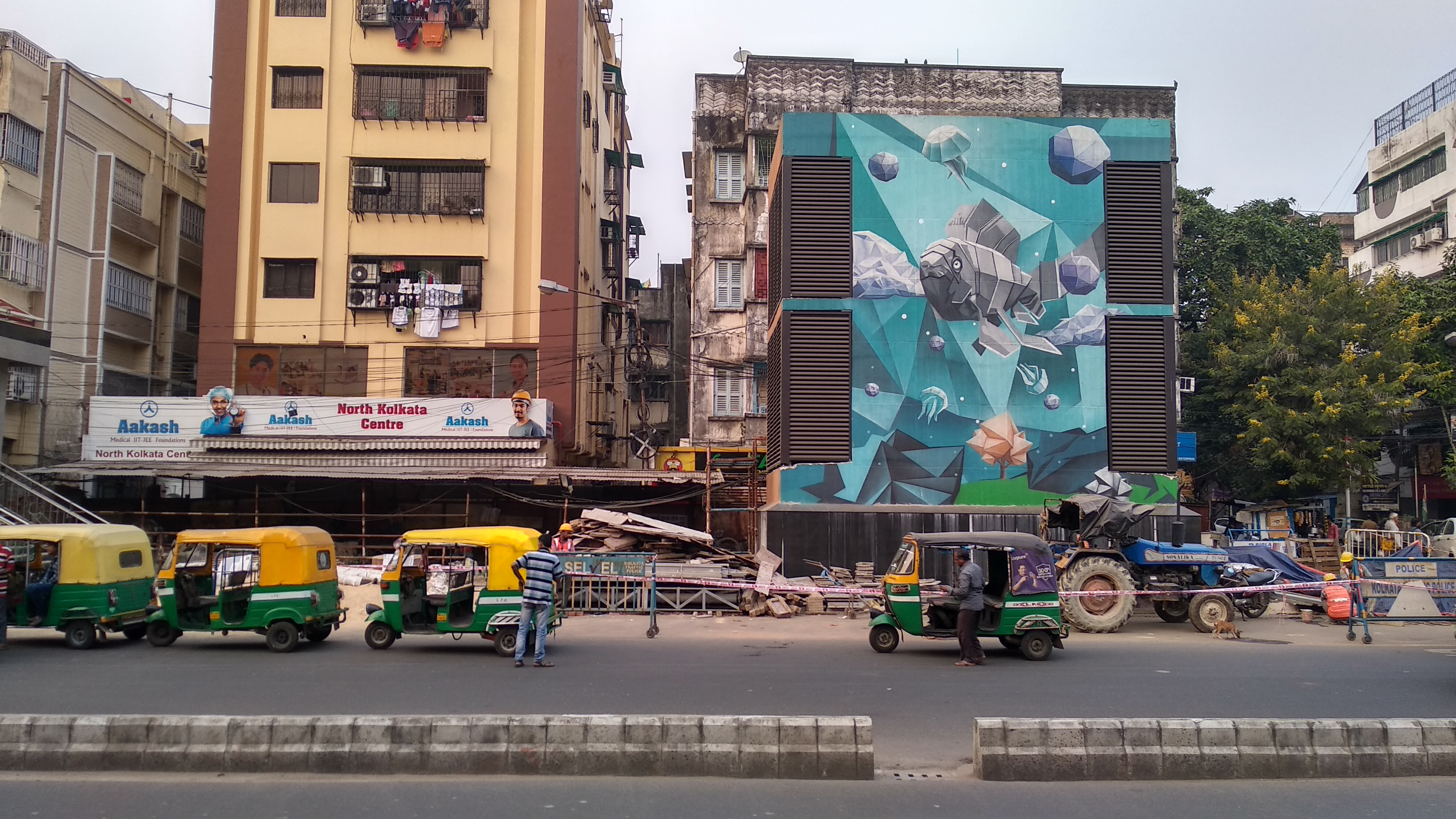 Outside of Phoolbagan Metro Station